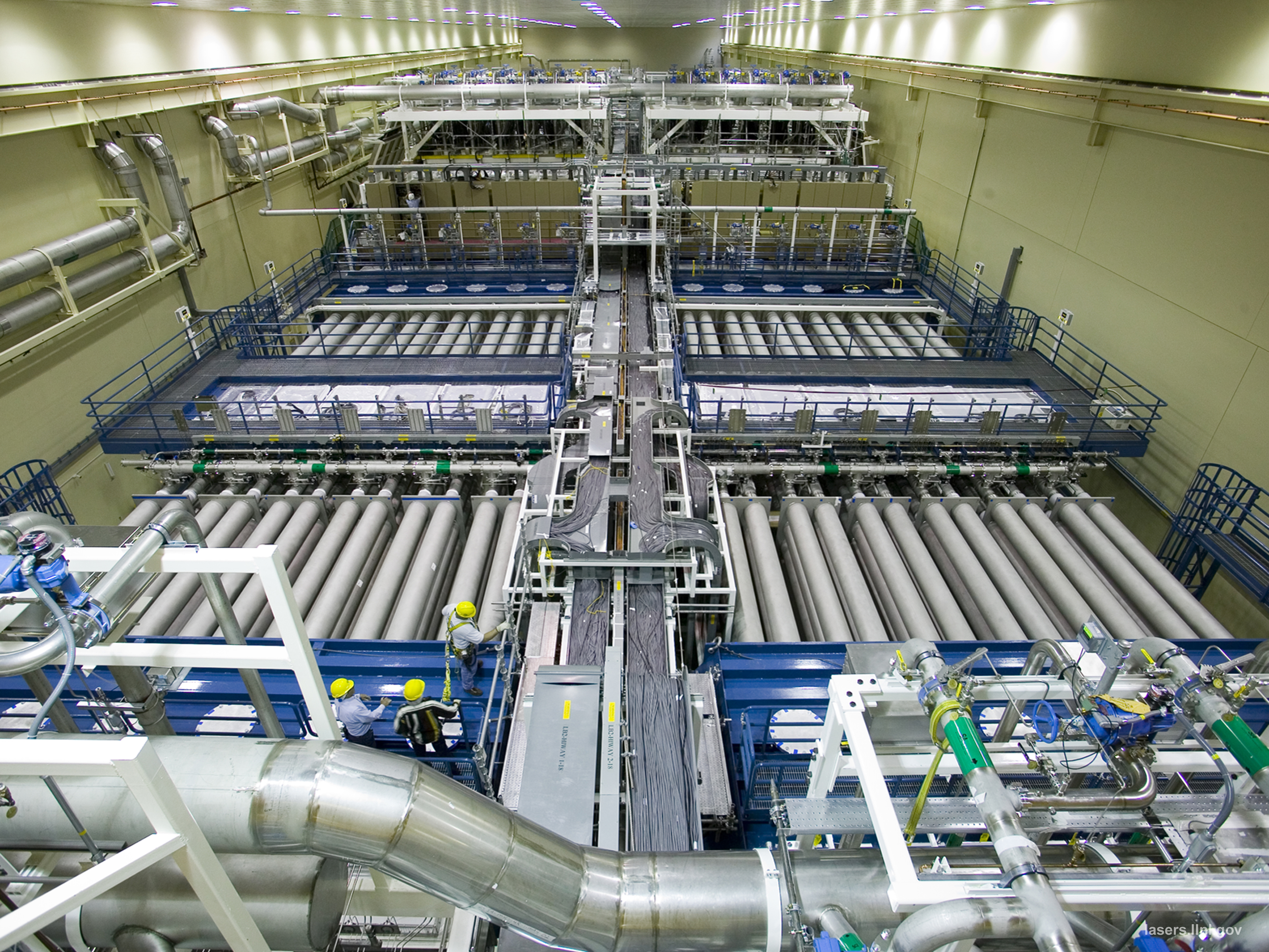 Laser Bay 2, one of NIF's two laser bays